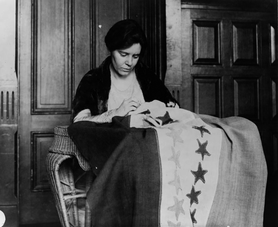 Alice Paul, half-length portrait, seated, facing slightly right, sewing suffrage flag